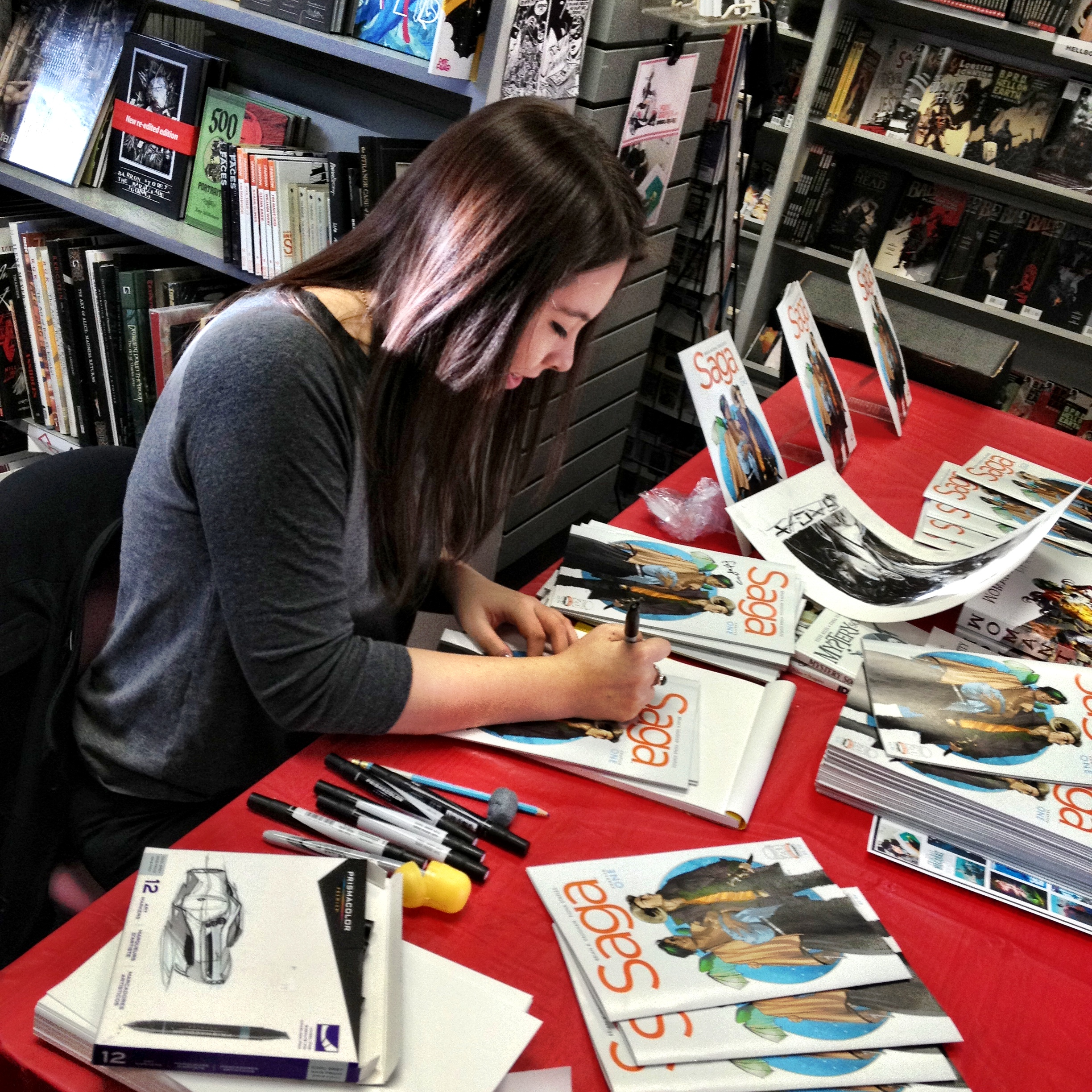 Fiona Staples signing at Another Dimension Comics in her hometown, Calgary, Alberta, in 2012